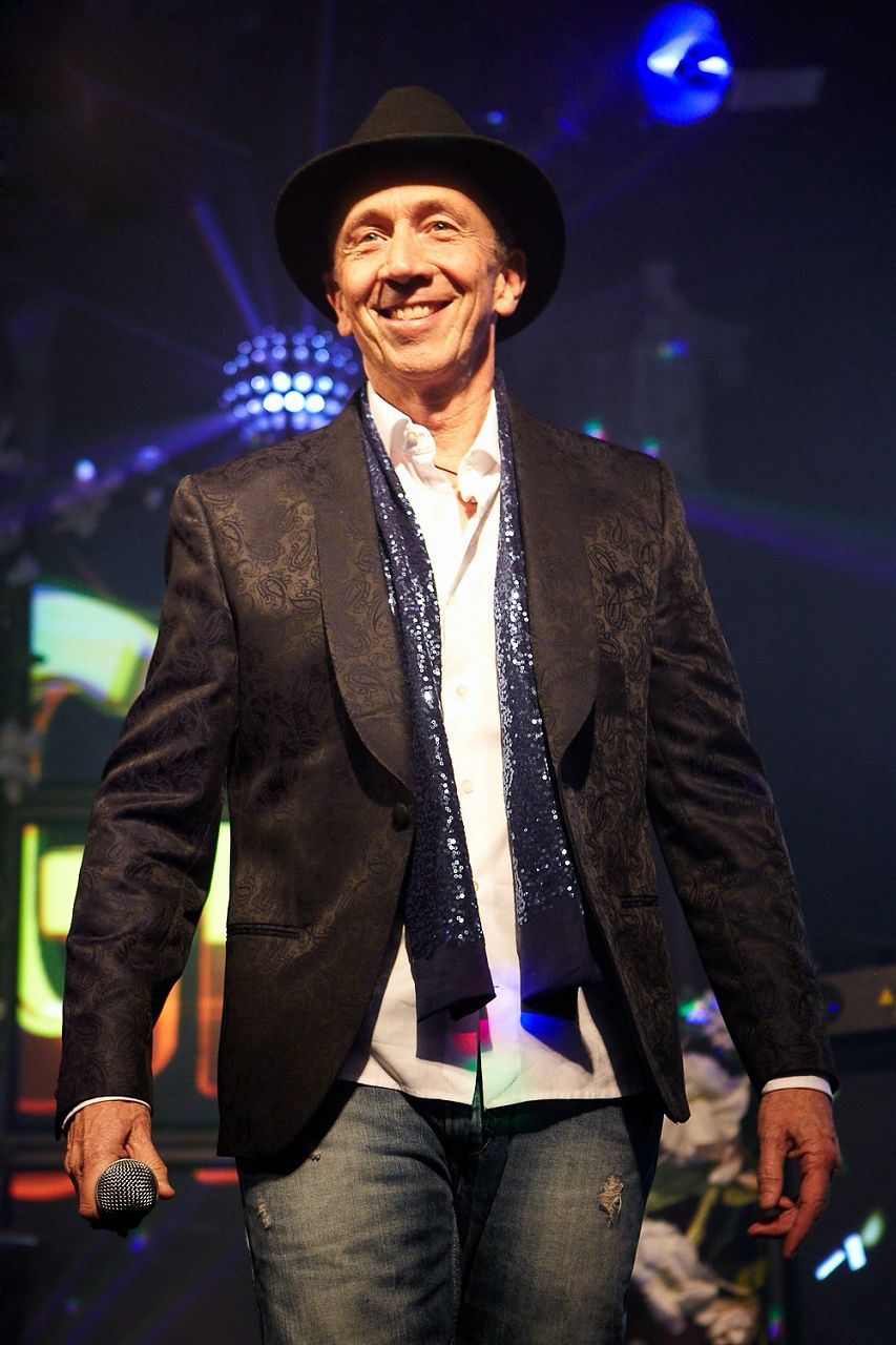 SAVAGE in Estonia, 2014